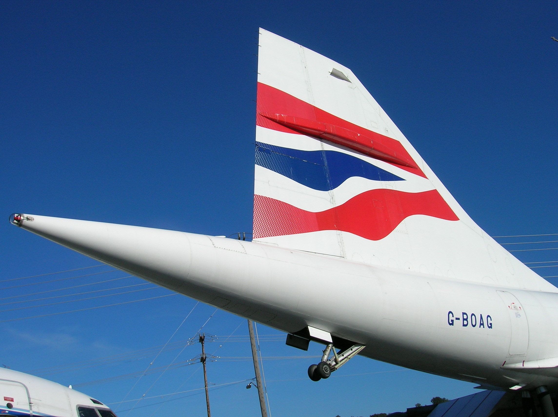 Tail of Concorde G-BOAG (Museum of Flight, Seattle)